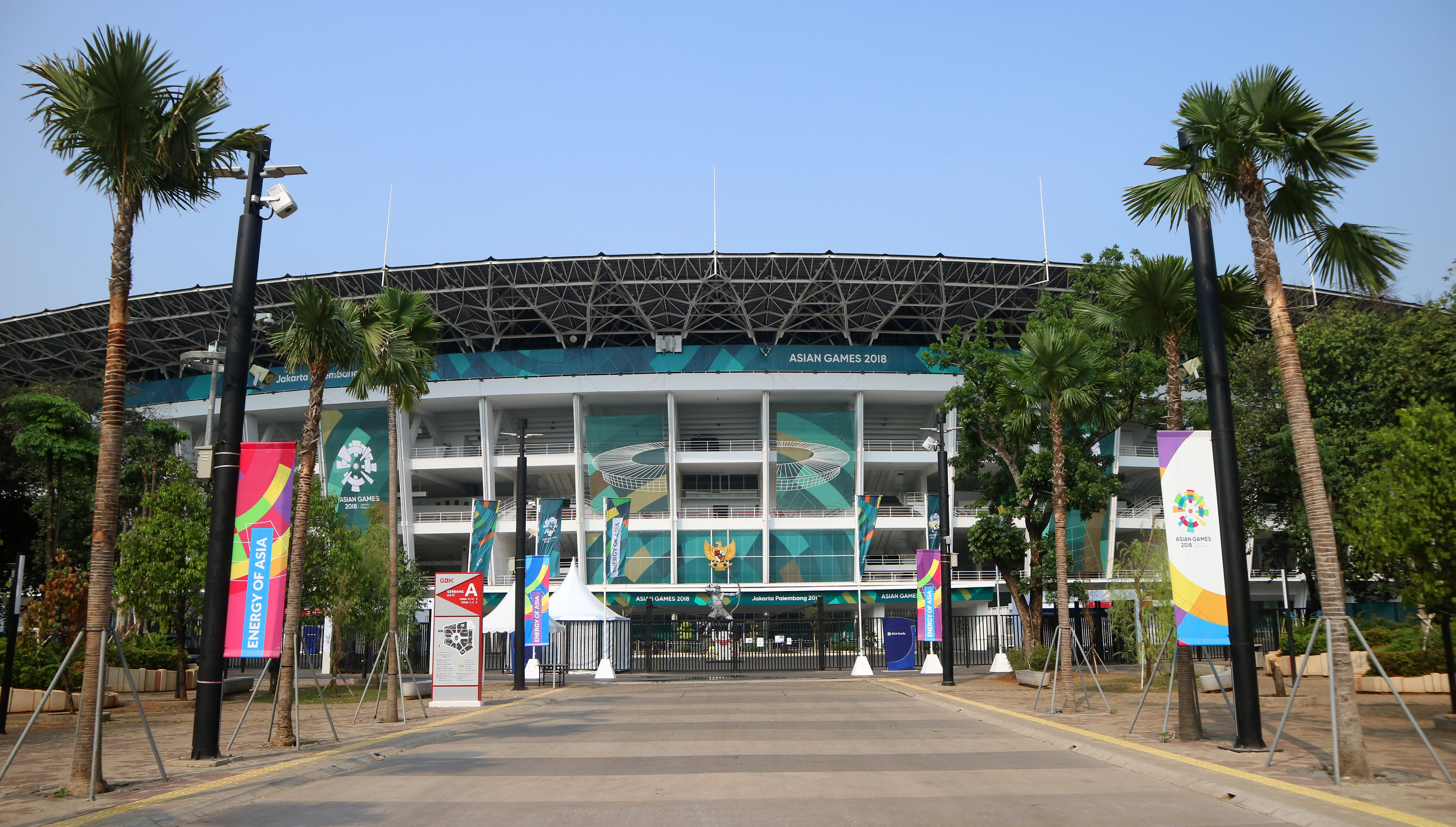 Gelora Bung Karno (GBK) Stadium in GBK sport complex, Senayan, Central Jakarta, during Asian Games 2018.